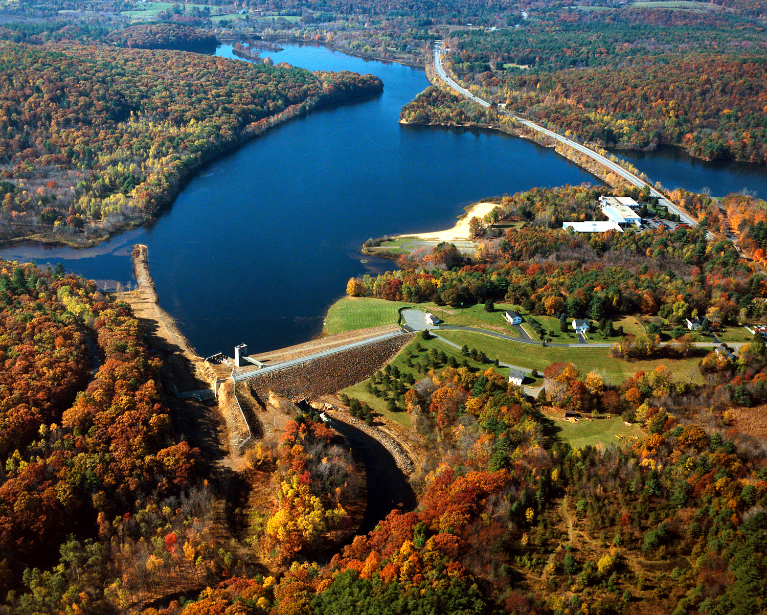 East Brimfield Lake and Dam on the Quinebaug River in Hampden County, Massachusetts, USA. The dam was constructed by the U.S. Army Corps of Engineers for flood control on the Quinebaug River.